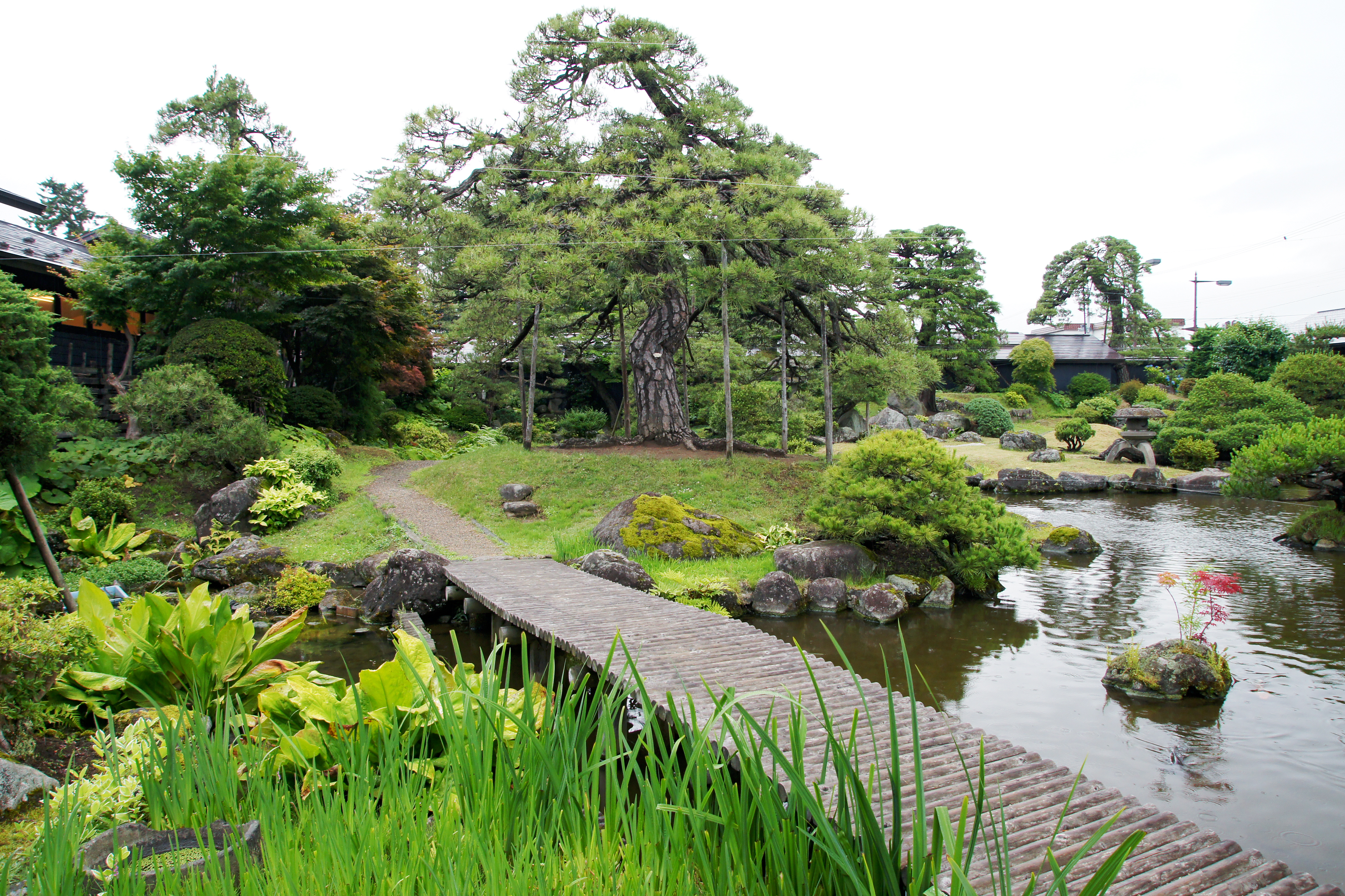 Tsugaruhan_Neputamura in Hirosaki, Aomori prefecture, Japan